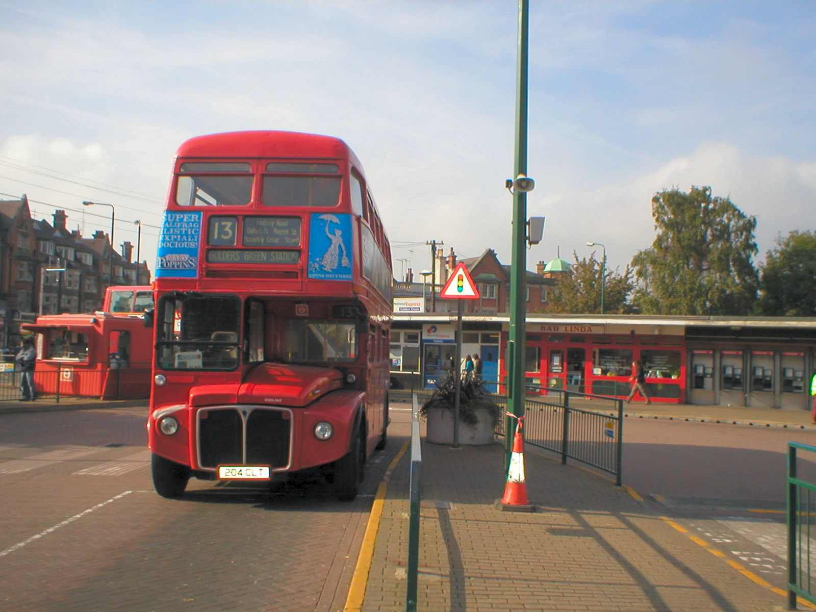 Sovereign Bus & Coach Routemaster bus RM1204 (reg. 204 CLT), operating route 13 and pictured having just arrived at the terminus in Golders Green bus station, north west London. By this time, the 13 was one of only 3 Routemaster operated routes left in London, and it was converted to modern buses four days later, on 21 October 2005.